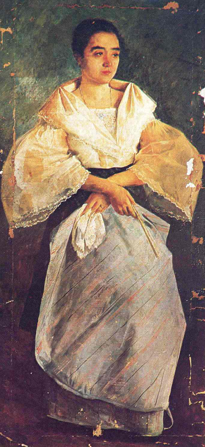 La Bulaqueña, painting by Filipino painter and political activist Juan Luna